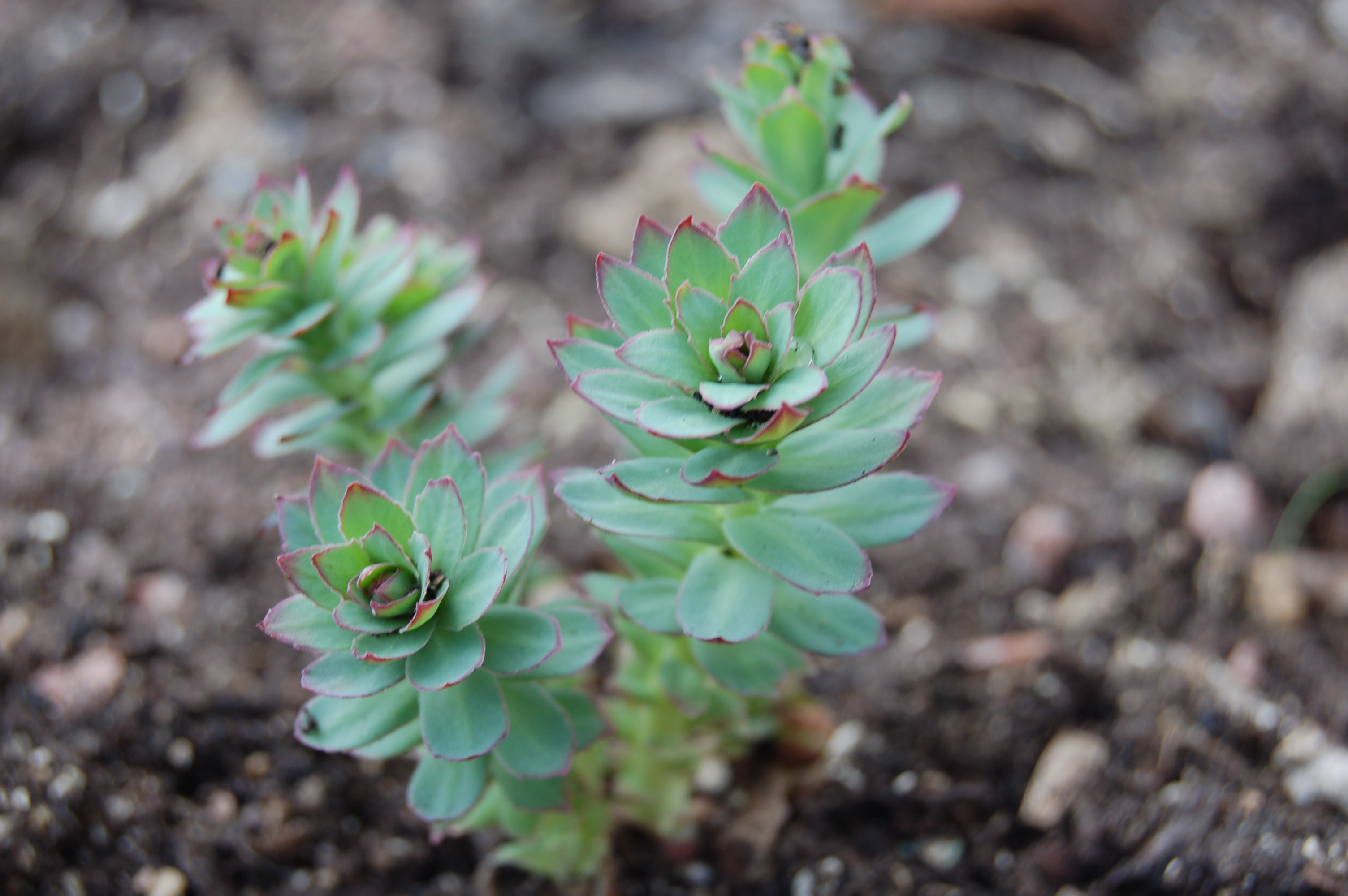 Rhodiola rosea sprouting new growth during the spring after winter dormancy in the U.K